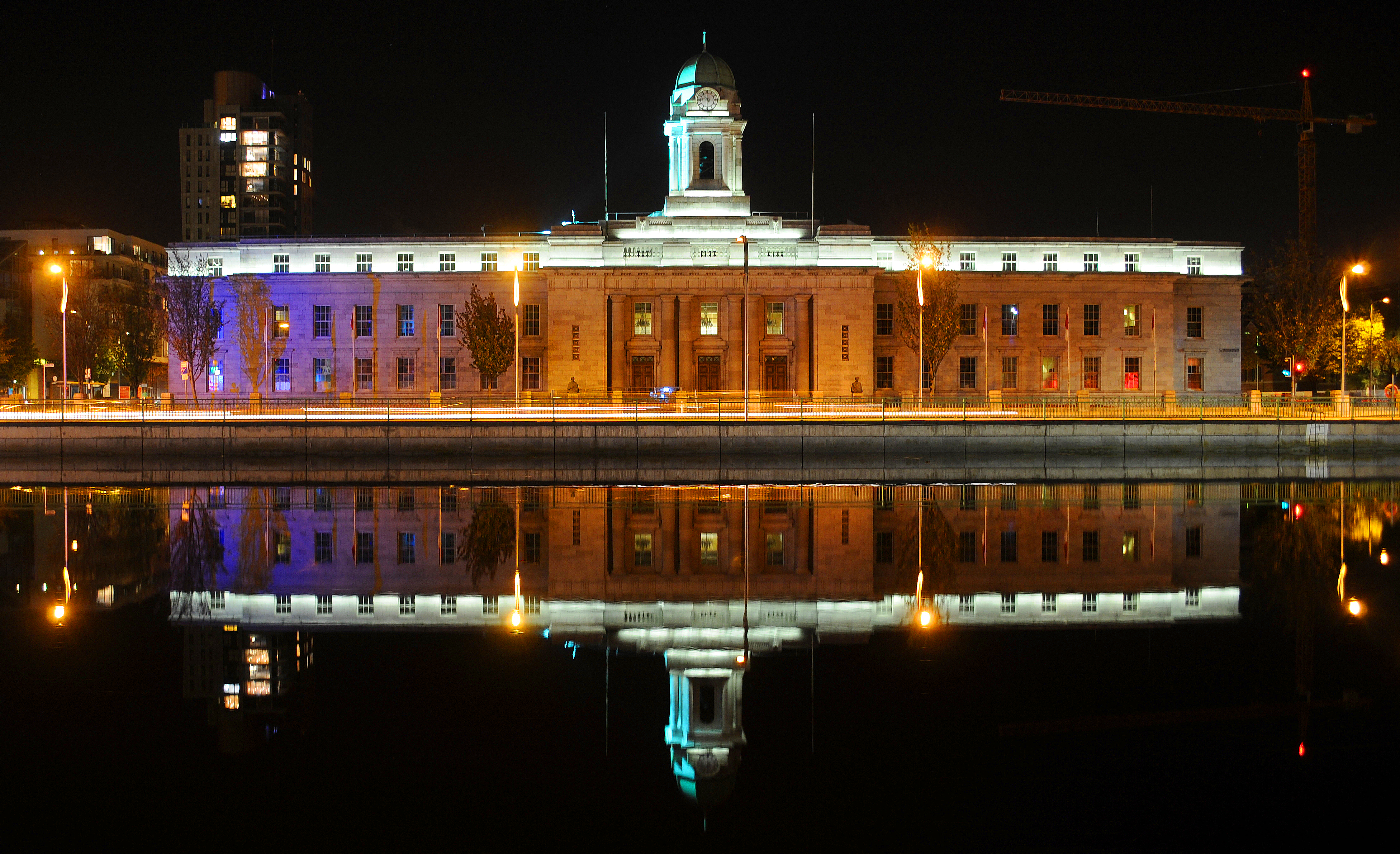 Cork City Hall